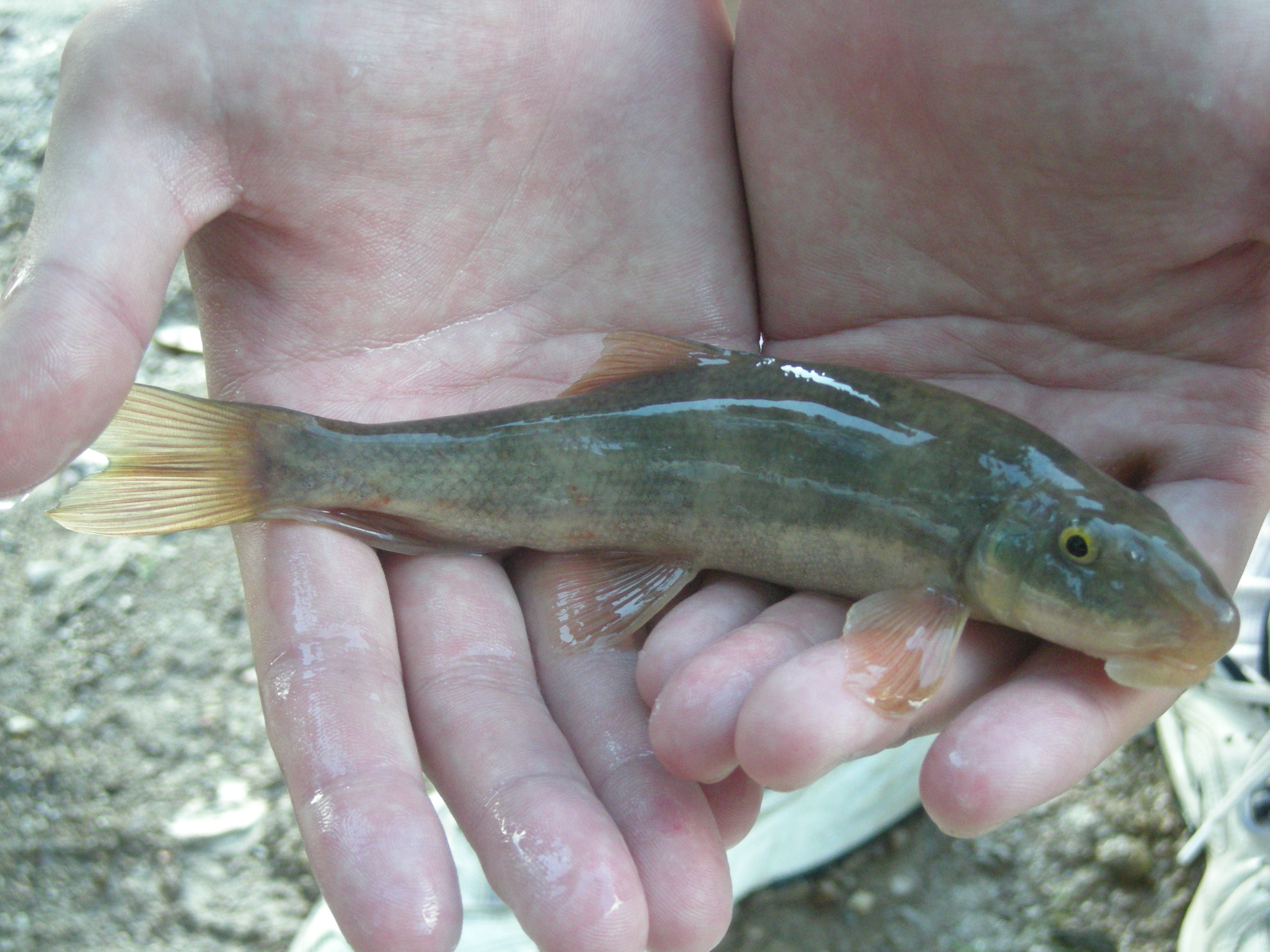 Desert Sucker in hand in Aravaipa Canyon